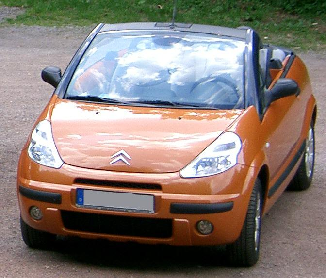 Citroën C3 Pluriel - Configuration: Spider